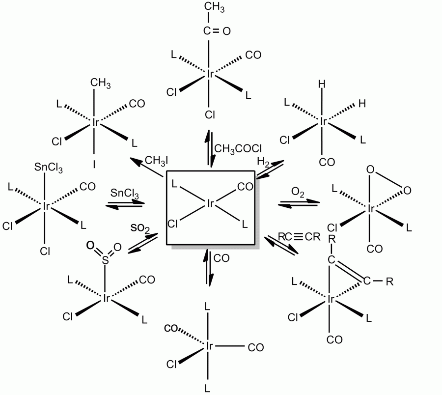 Various Oxidative Addition reactions of Vaska's complex